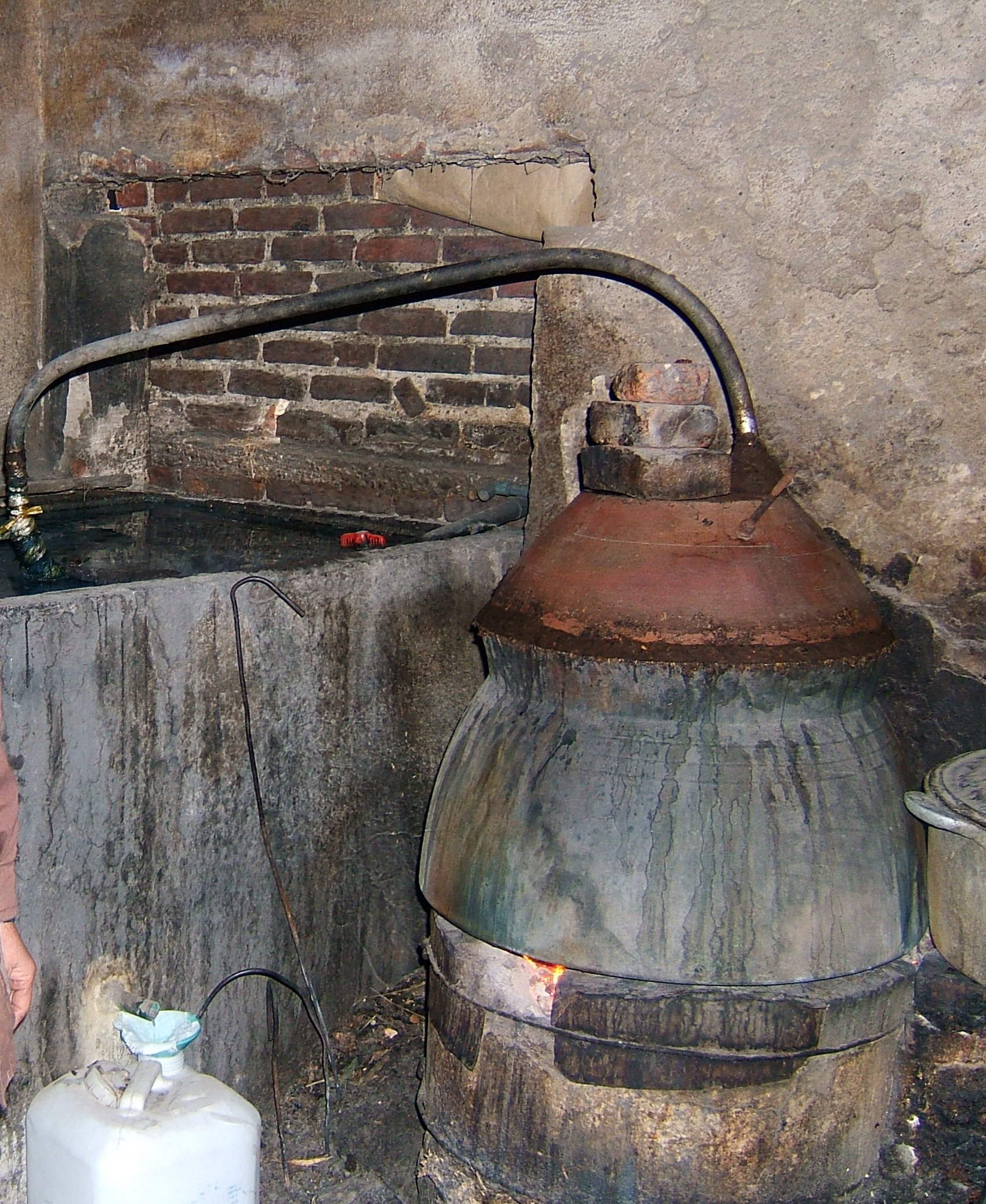 A rượu đế (Vietnamese rice liquor) still. Photo taken in Vân village, Bắc Ninh province, Vietnam.